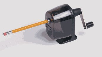 Hand cranked pencil sharpener, cropped and converted from gif to jpg from image